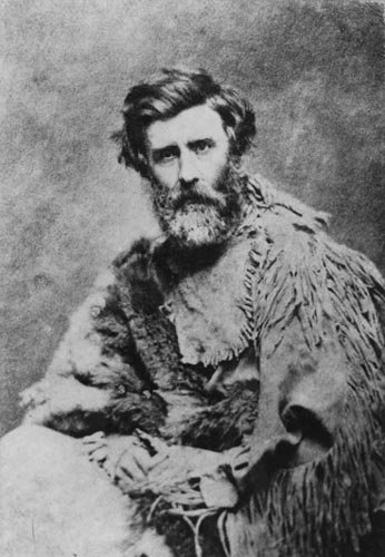 Paul Kane (1810–1871) Description painter Date of birth/death3 September 181020 February 1871Location of birth/deathMallow, County Cork, IrelandToronto, CanadaWork period1830s until early 1860sWork locationCanadaAuthority control VIAF: 61657235 LCCN: n50045960 GND: 119344025 BnF: cb125291365 ULAN: 500000795 ISNI: 0000 0000 8140 9270 WorldCat WP-Person